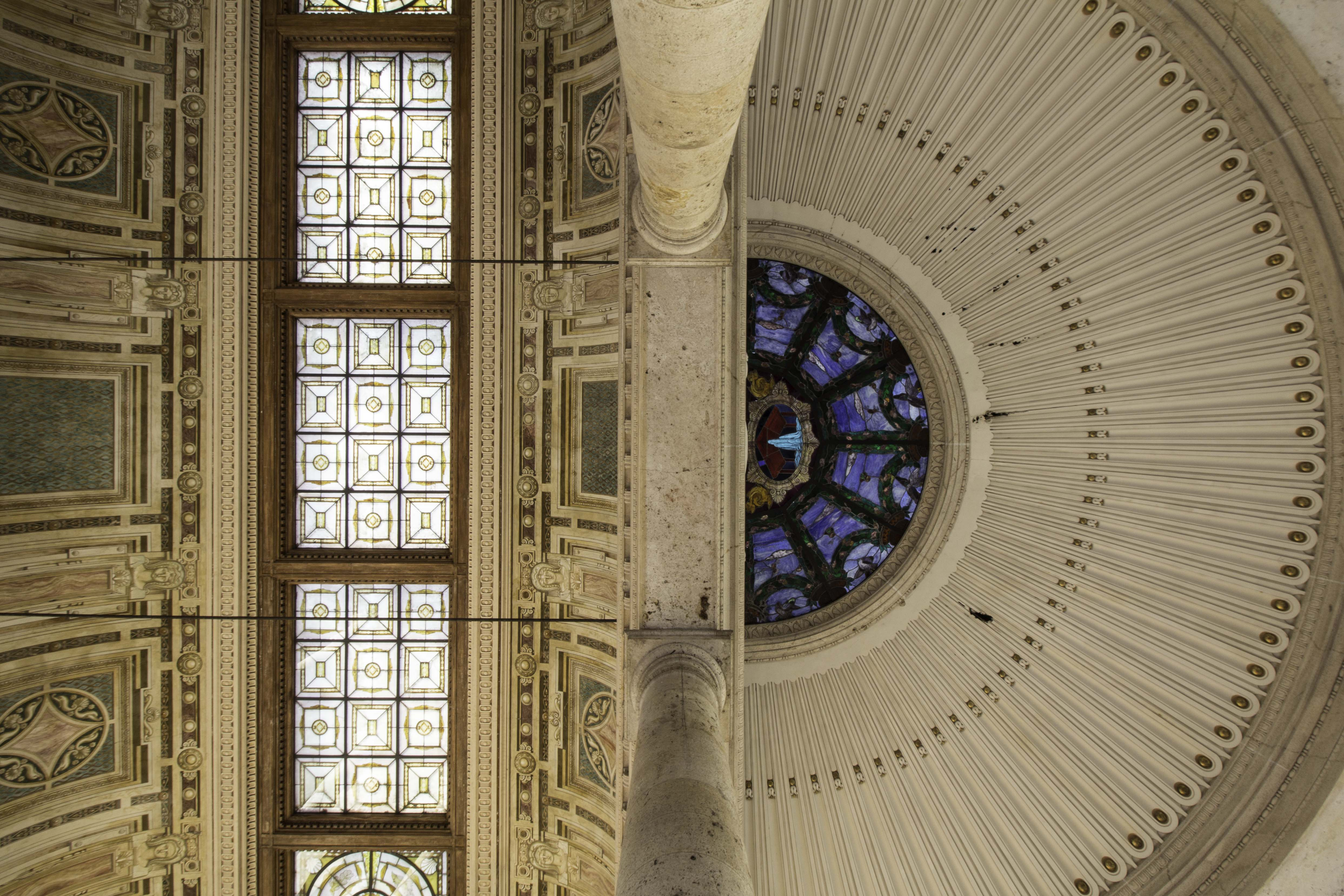 Ceiling and stained glass windows in the thermal baths Terme Tettuccio in Montecatini Terme This is a photo of a monument which is part of cultural heritage of Italy.